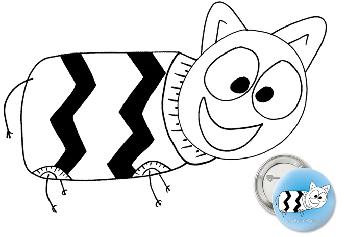 A cartoon character created by Mark Baluk.